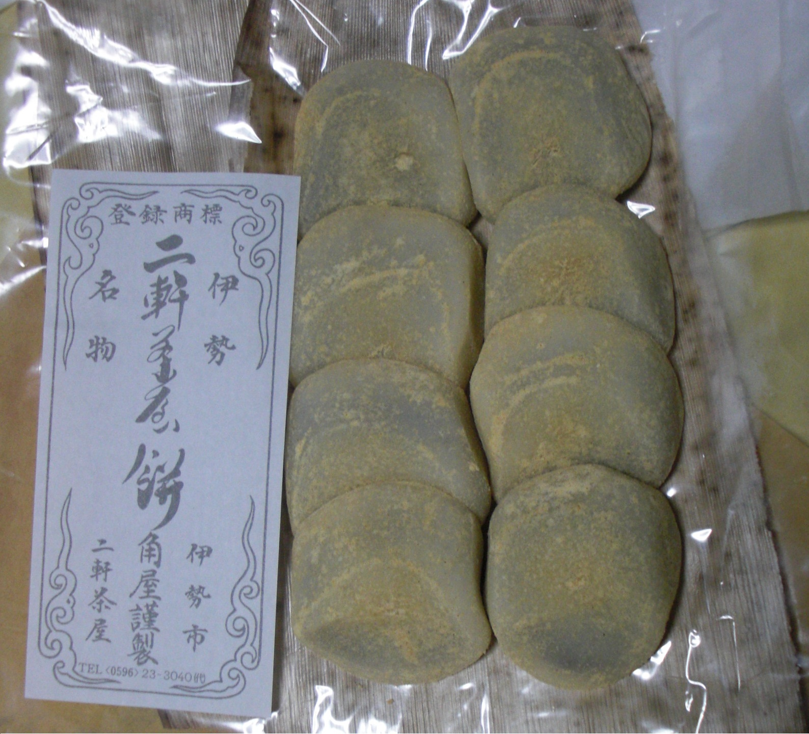 This is Nikenchaya Mochi, which is made by Kadoya.